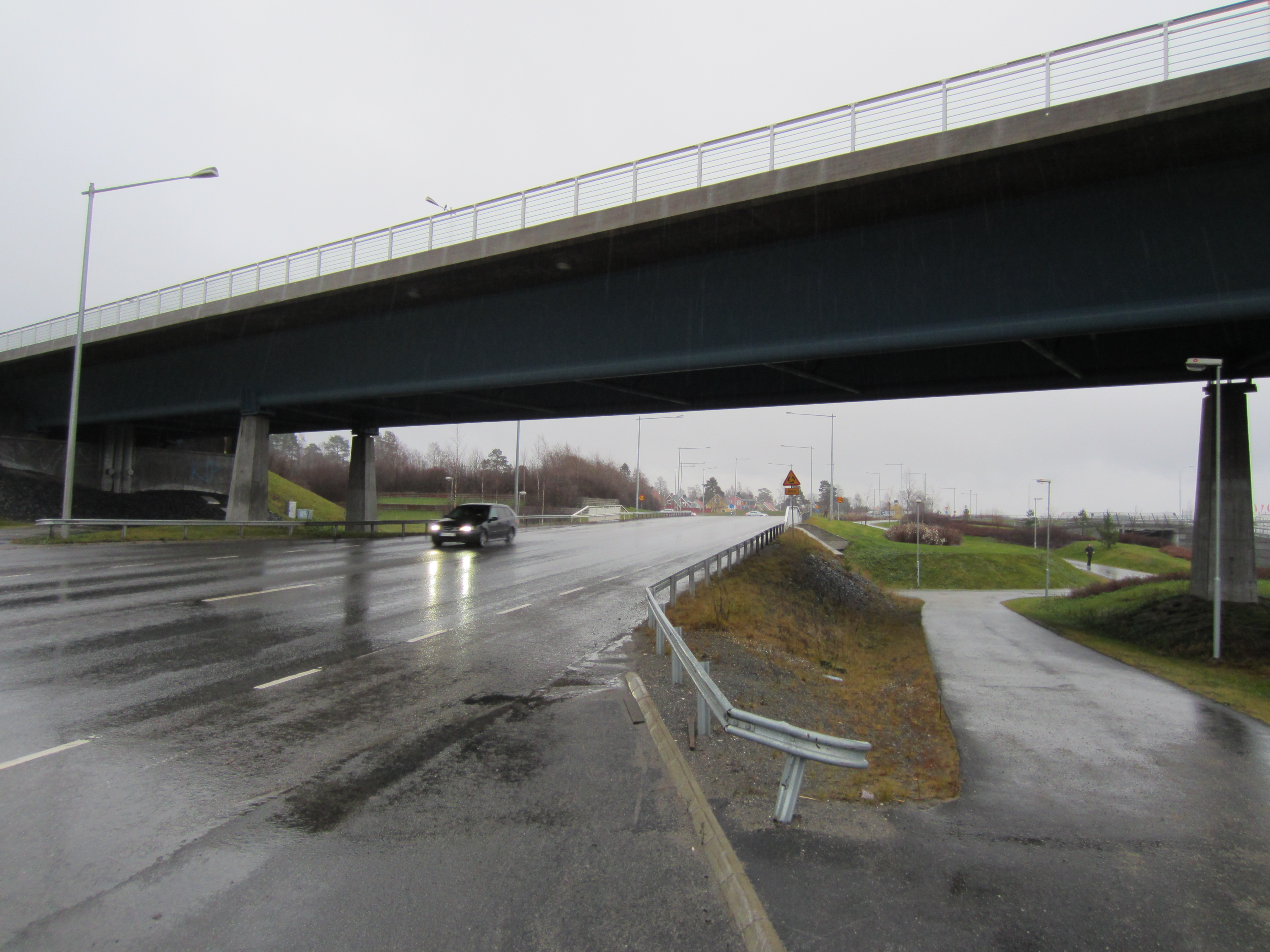 Swedish road "Blå vägen", part of European Route 12.